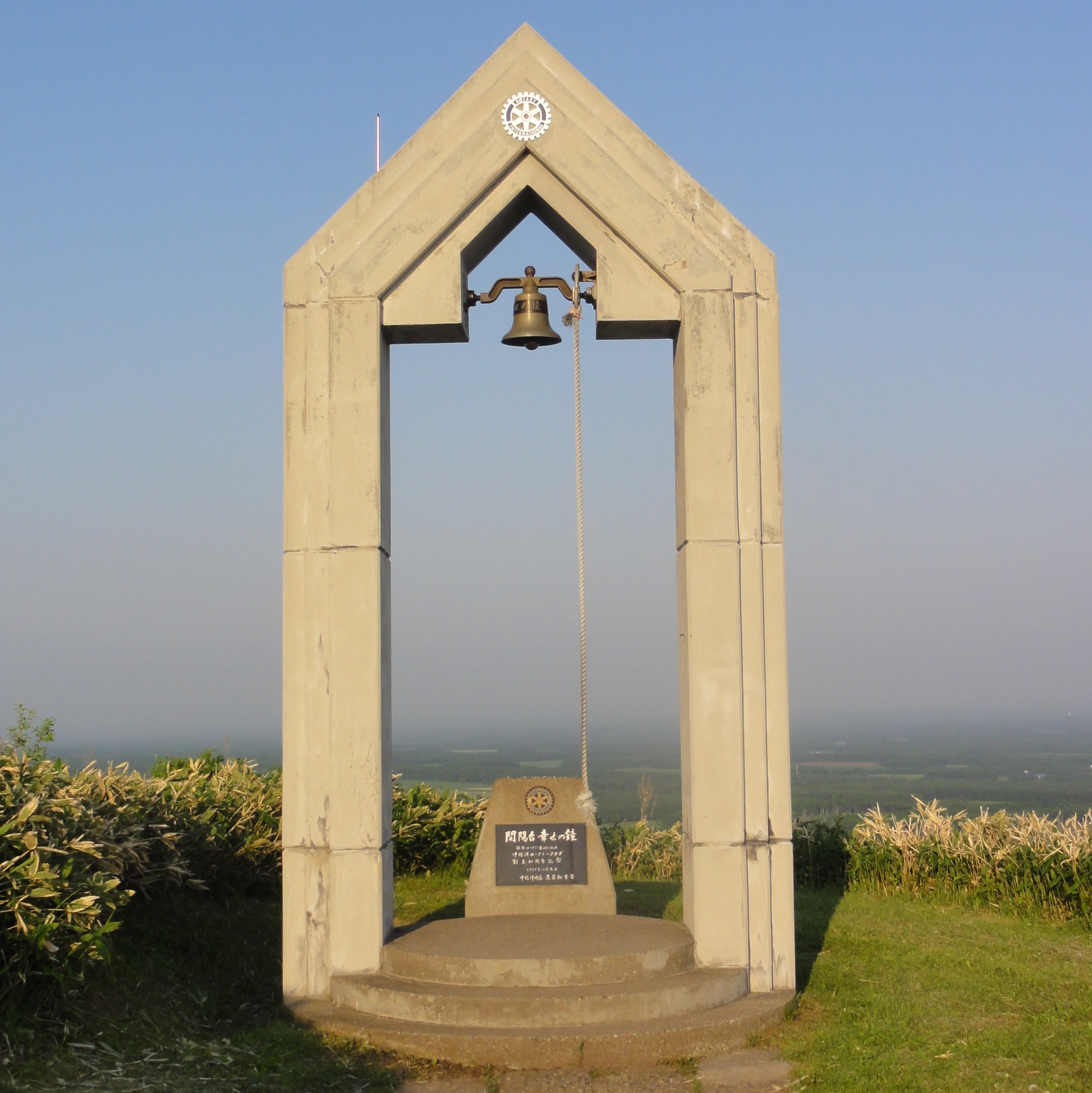 Bell of happiness,Hokkaido,Japan